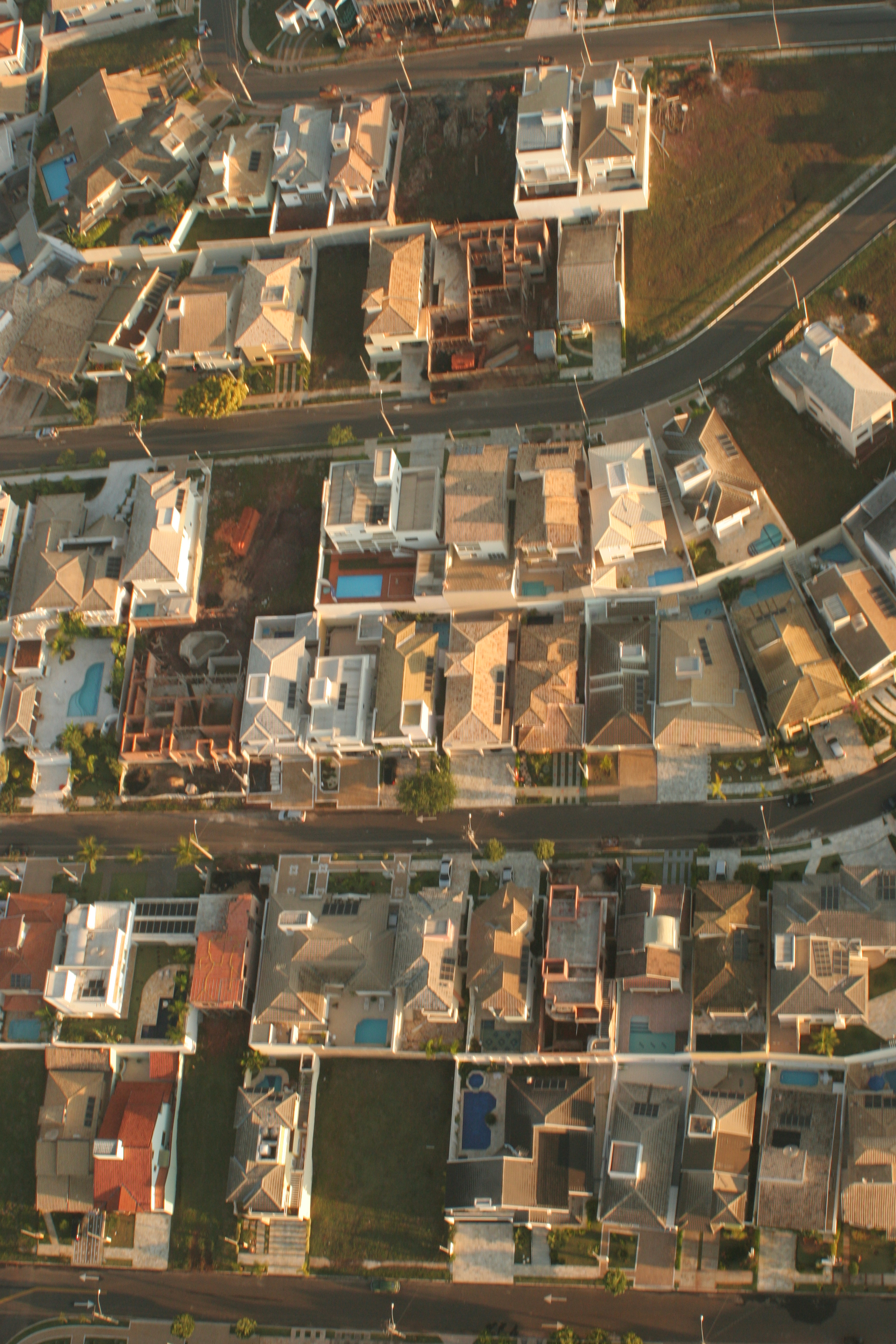 Luxurious houses in Piracicaba, São Paulo, Brazil.